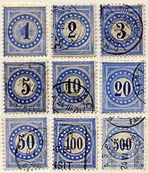 Postage due stamps of Switzerland, first issue, 1878.